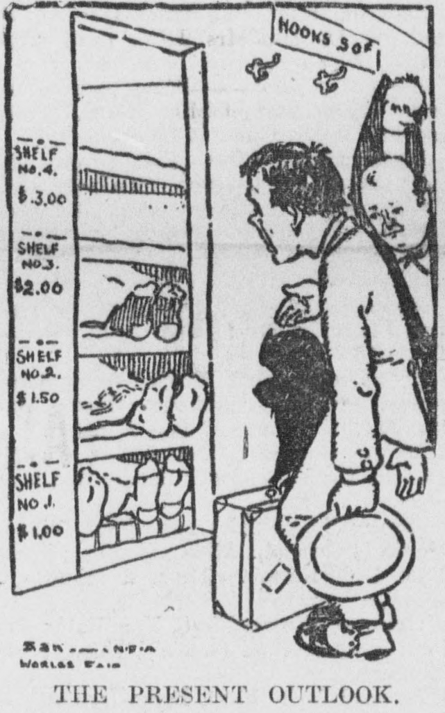 to warn people attending the 1904 Louisiana Purchase Exposition of the probability that St. Louis residents will gouge them, a cartoonist depicts people renting "hotel rooms" that are literally shelves.The bottom shelf is $1 (in 1904 money), the top shelf is $3, and the adjacent wall hooks are $0.50.